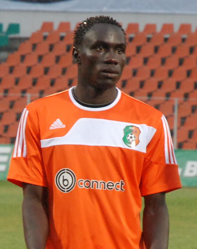 Papa Alioune Diouf is a Senegalese footballer who currently plays for Litex Lovech